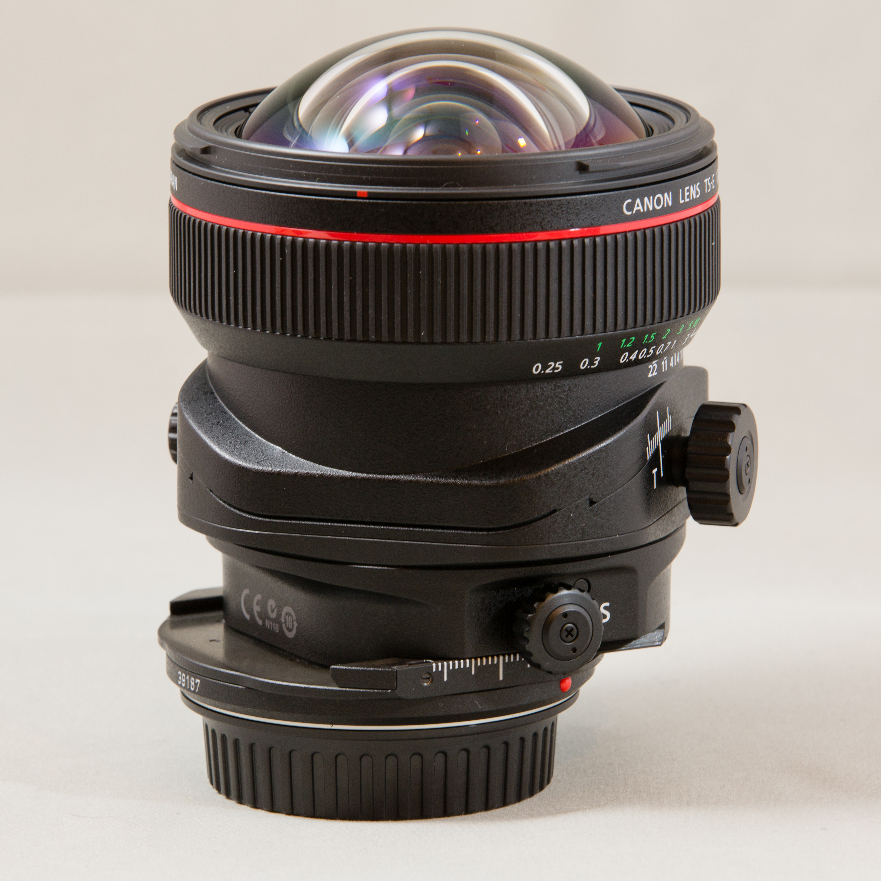 Canon TS-E 17 mm f/4 lens in shifted position.